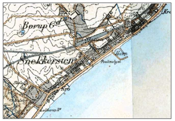 Snekkersten 1898